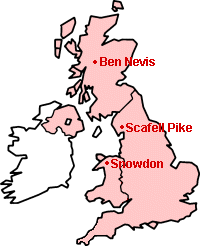 A map of the British Isles, with the United Kingdom in pink, showing the three peaks.